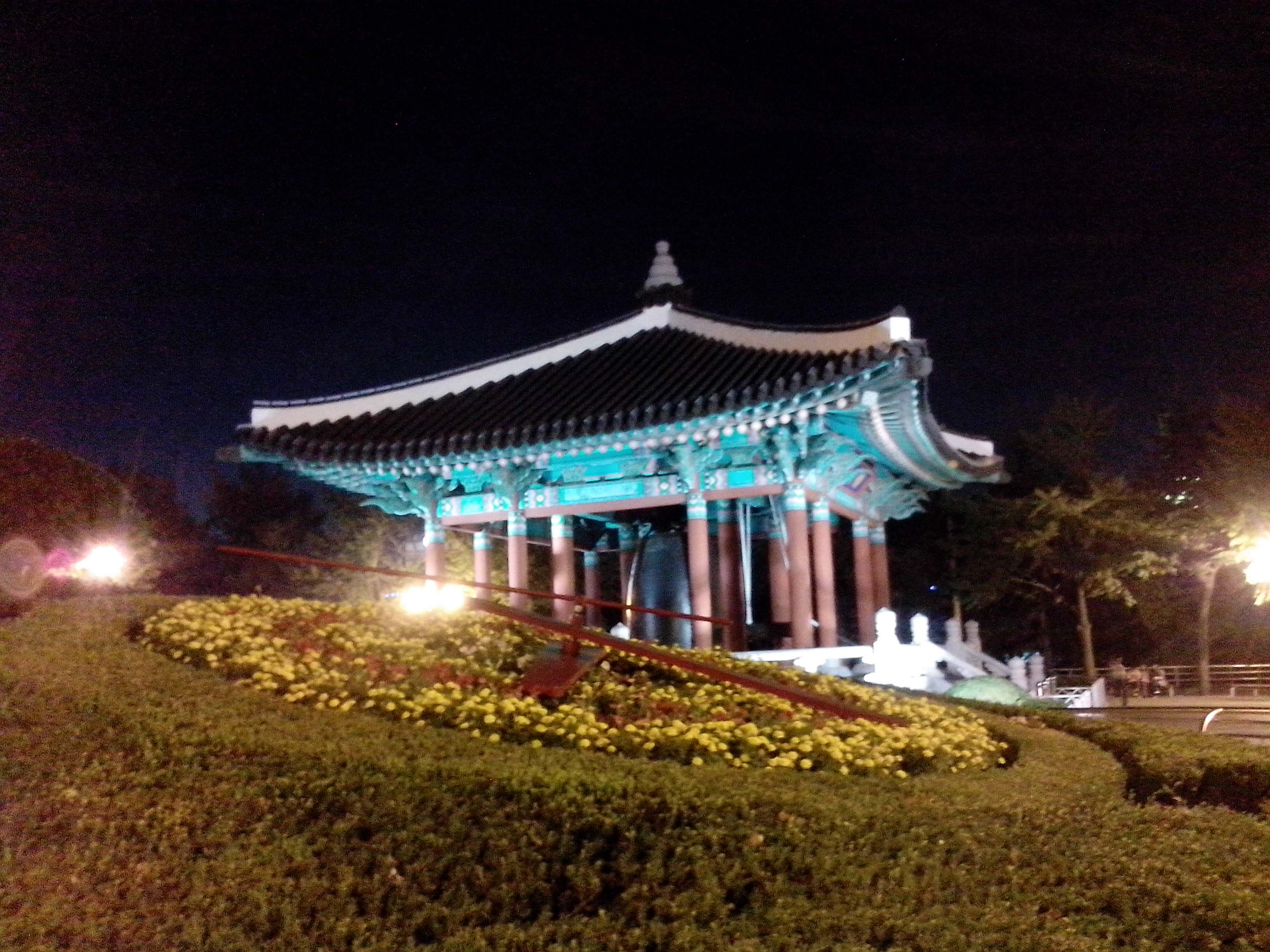 Yongdusan Park at night